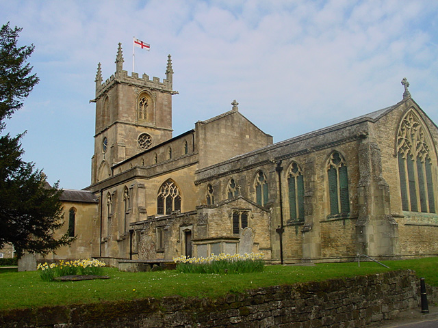 St Mary the Virgin parish church, Gillingham, Dorset, seen from the southeast, with the 14th-century chancel on the right